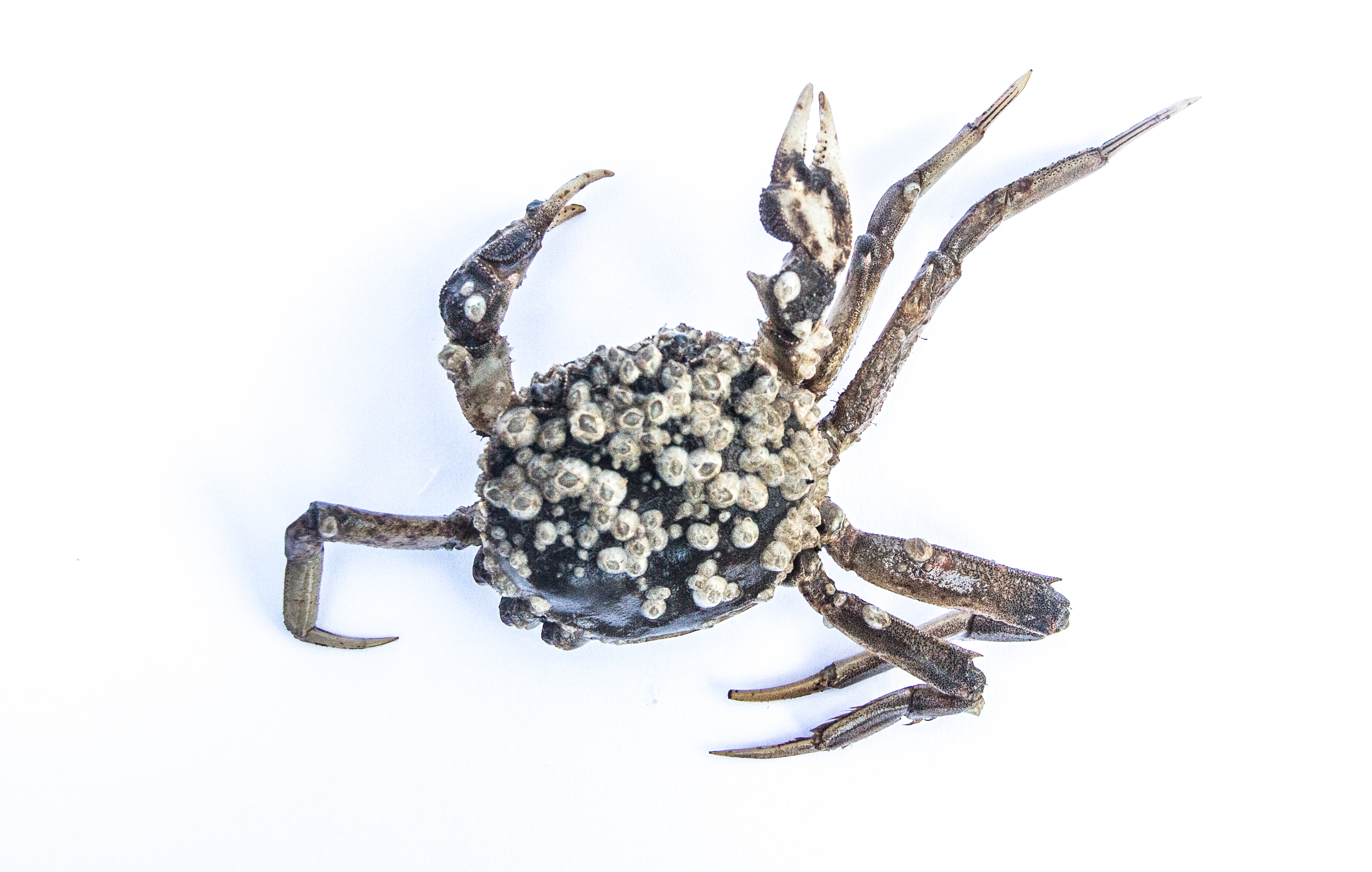 Mitten Crab with many barnacles on its back